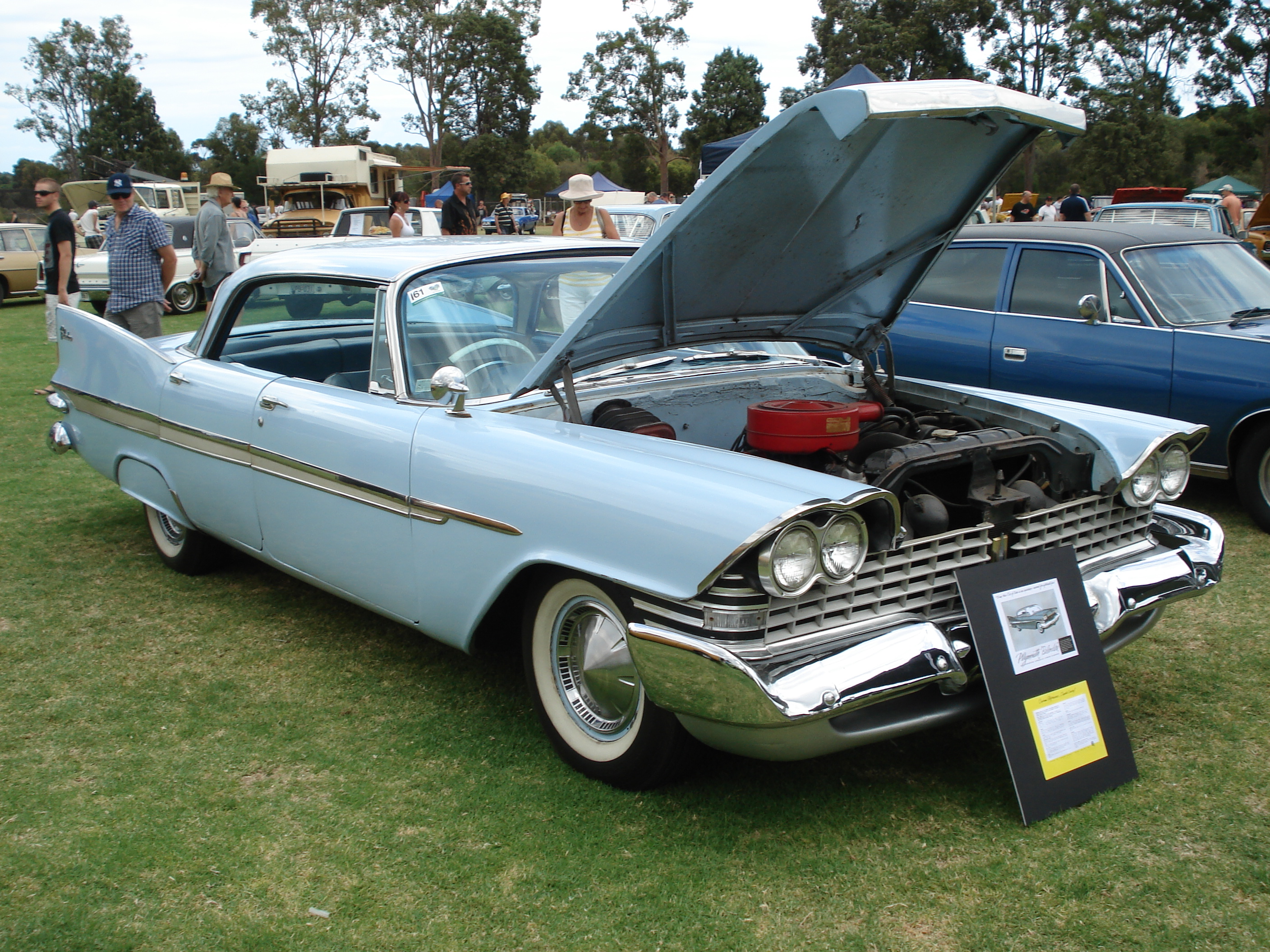 1959 Plymouth Belvedere 4-door Hardtop. The fact that it is right hand drive and that it was displayed with an Australian '59 Plymouth Belvedere brochure suggests that this example is an Australian assembled Belvedere Nov 26, 2018...I would be more likely to believe this model was made and built in Canada for export. Chrysler of Canada made many late 50's car for this purpose complete with right hand drive and speedometers in Kilometers Per hour, the net has other models that went to Europe and even South Africa from this era. To add, although beautiful this car is a out of place egg in Australia. The tooling alone to be built there would not justify the cost for maybe a handful of cars, cars that share no resemblance to Australian built Chrysler's of there era. No doubt someone had a deep pocket down under back then...... PS, Ford and General motors did the same, a rare handful at the time and as this Plymouth even rarer today.